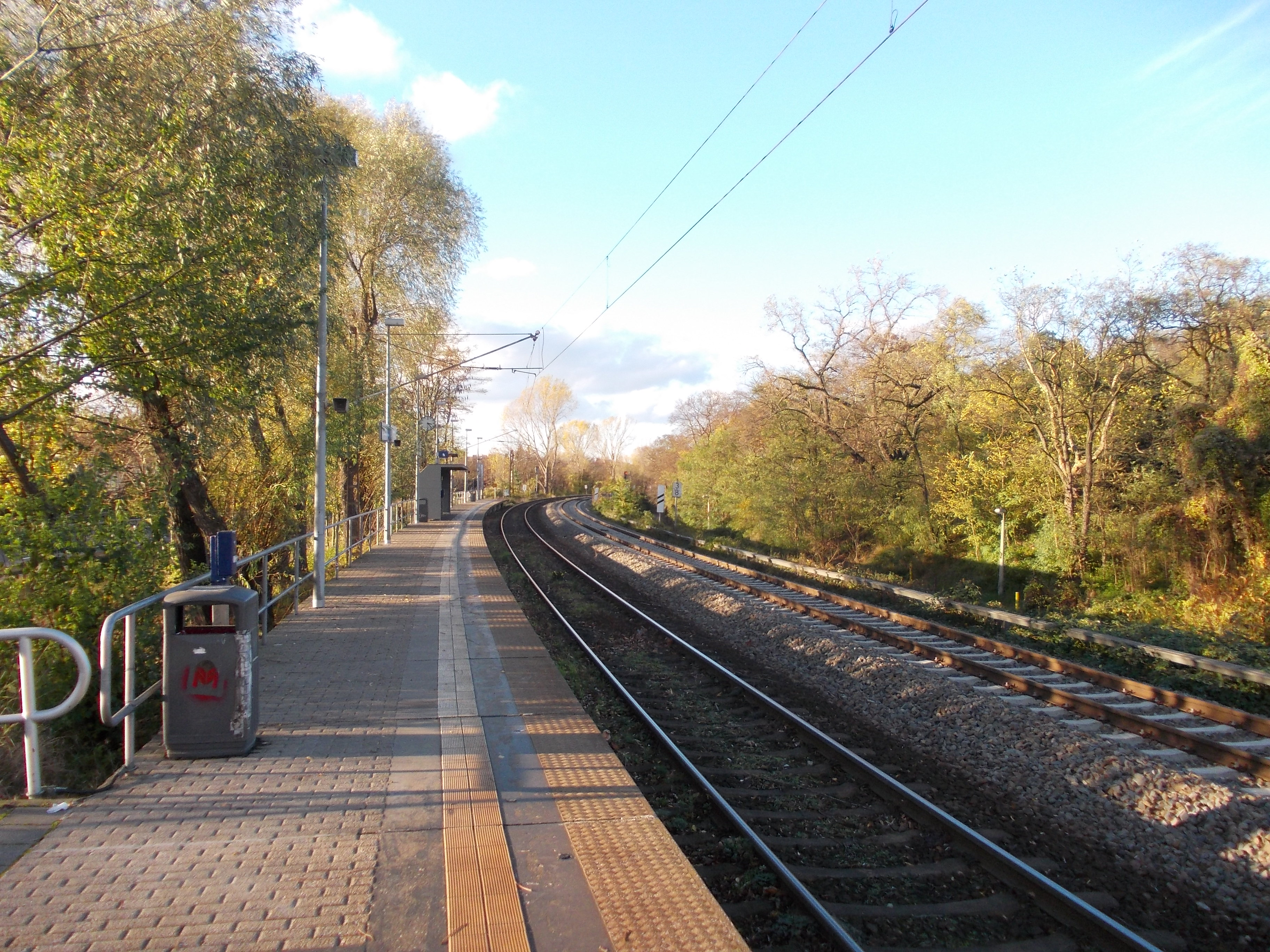 Halle Zoo train station (Halle/Saale, Saxony-Anhalt)